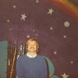 Richard Pochinko, Montreal 1967, Nion-Birth of a Clown